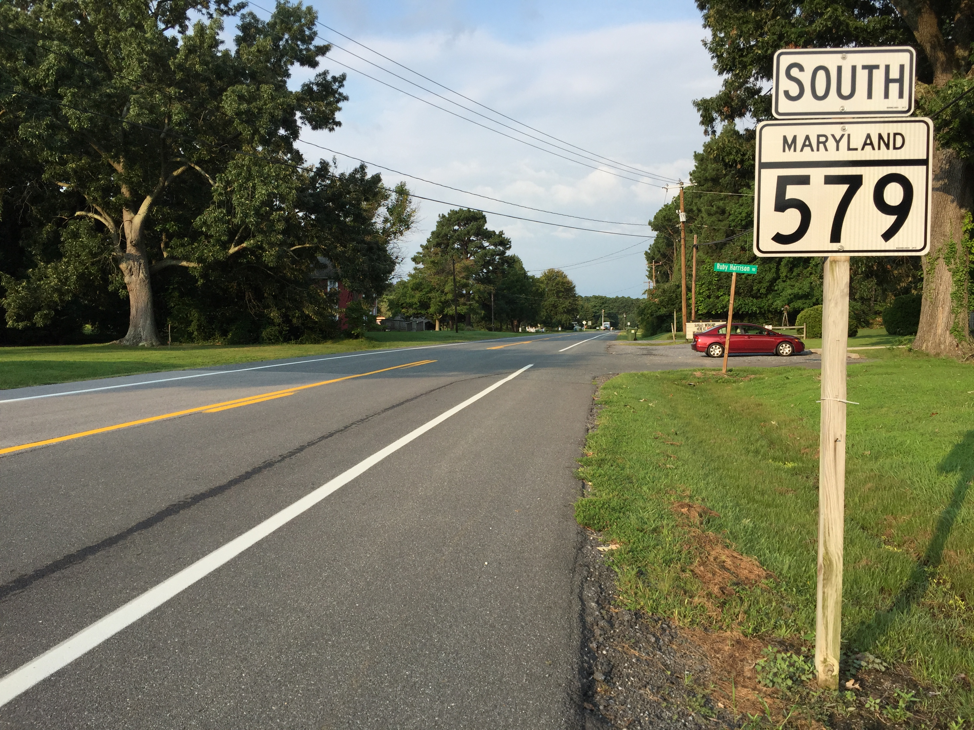 View south along Maryland State Route 579 (Bozman Neavitt Road) at Ruby Harrison Road in Bozman, Talbot County, Maryland